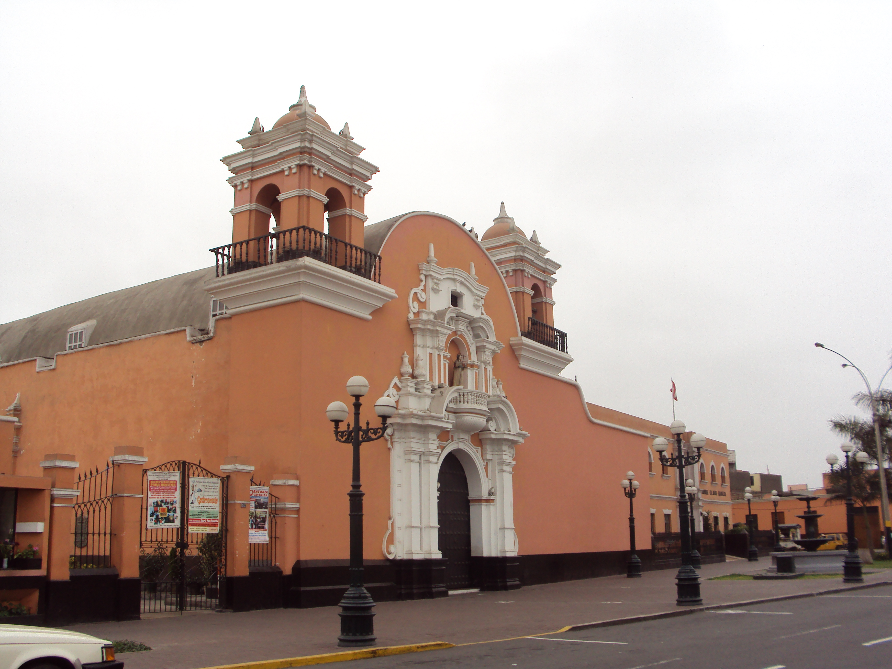 Maria Magdalene church in Pueblo Libre District, Lima-Peru.